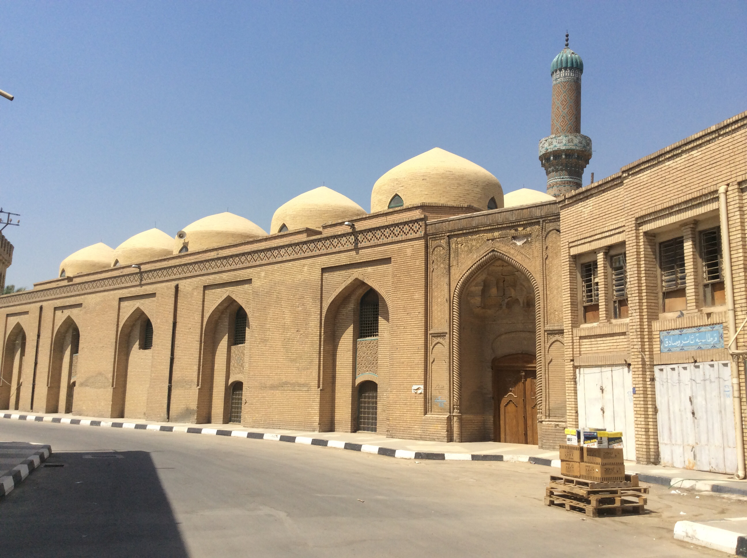 Al Sarai Mosque in Baghdad - Rusafa